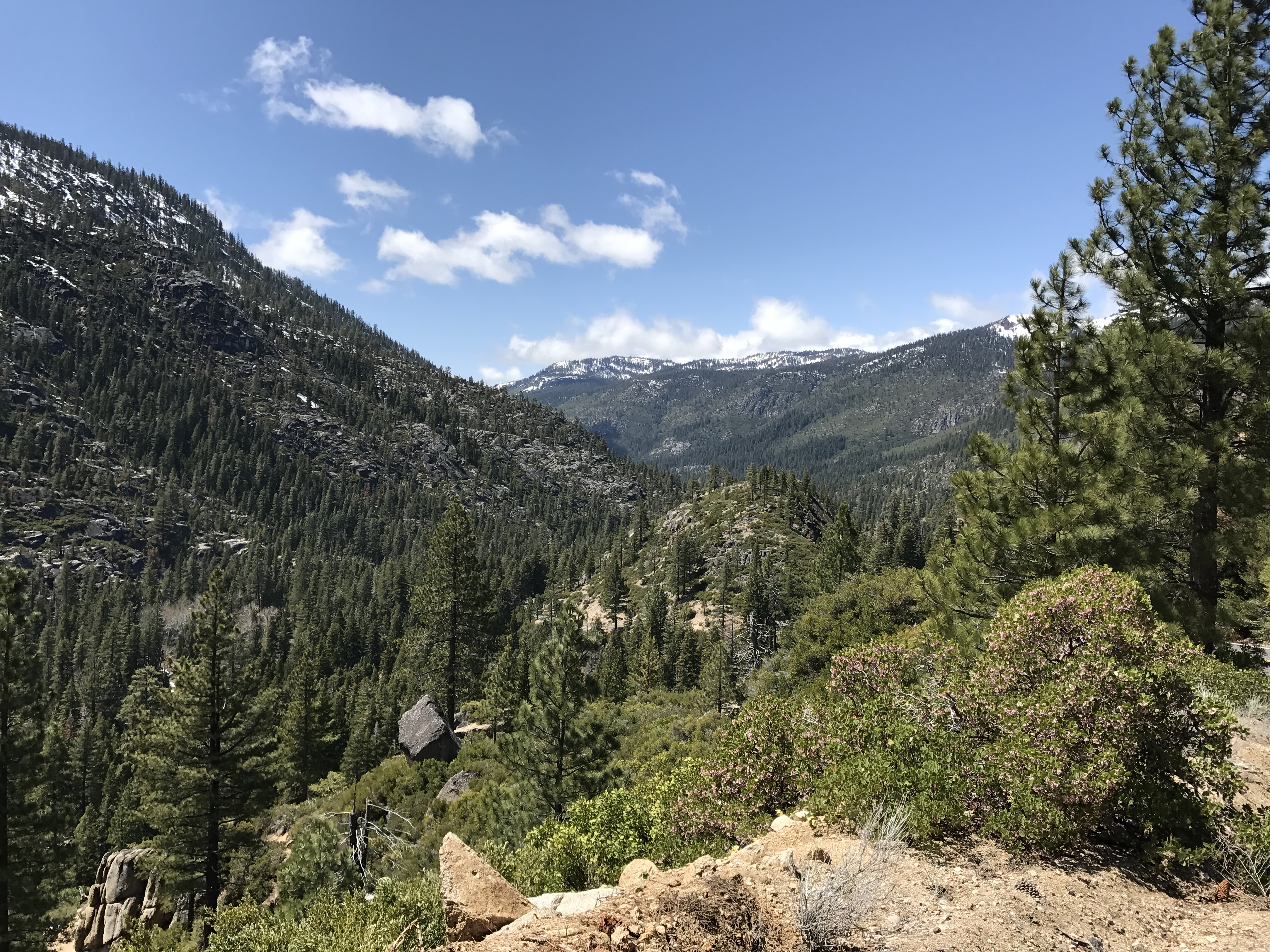 Stanislaus National Forest, Pinecrest, United States, May 2017